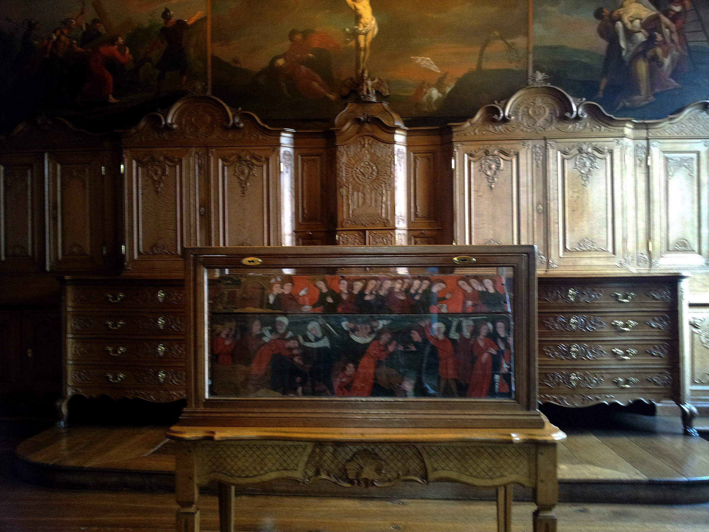 Borgloon-Kerniel, Belgium. View of the sacristy of the Abbey Mariënlof (also: Abbey of Colen). In the foreground the 13th-century painted reliquary shrine of Saint Odile. In the background a large piece of oak furniture in Liège-Aachen baroque style. The name of the wood carver, whose initials are carved in the furniture (B.L.H.), has not yet been identified. The ceiling stucco of the sacristy was done by a member of the Moretti family (Joseph Moretti?). The walls are covered by 8 large canvasses depicting the life of Christ, painted in 1777 by Liège artist Martin Aubée.